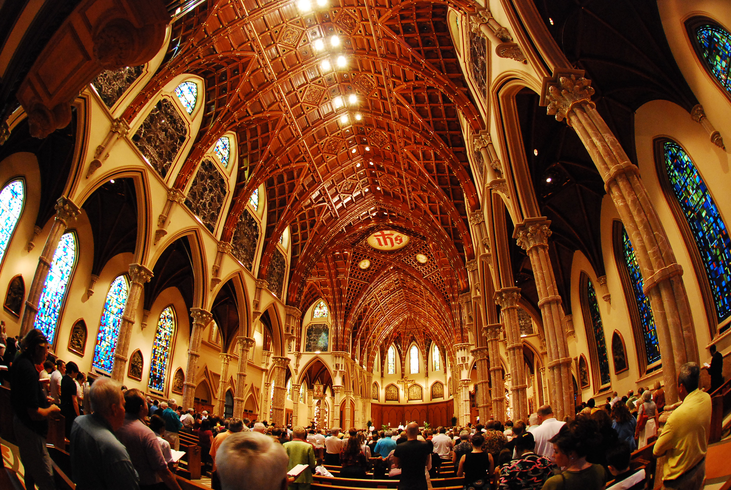 interior of the newly restored Holy Name Cathedral